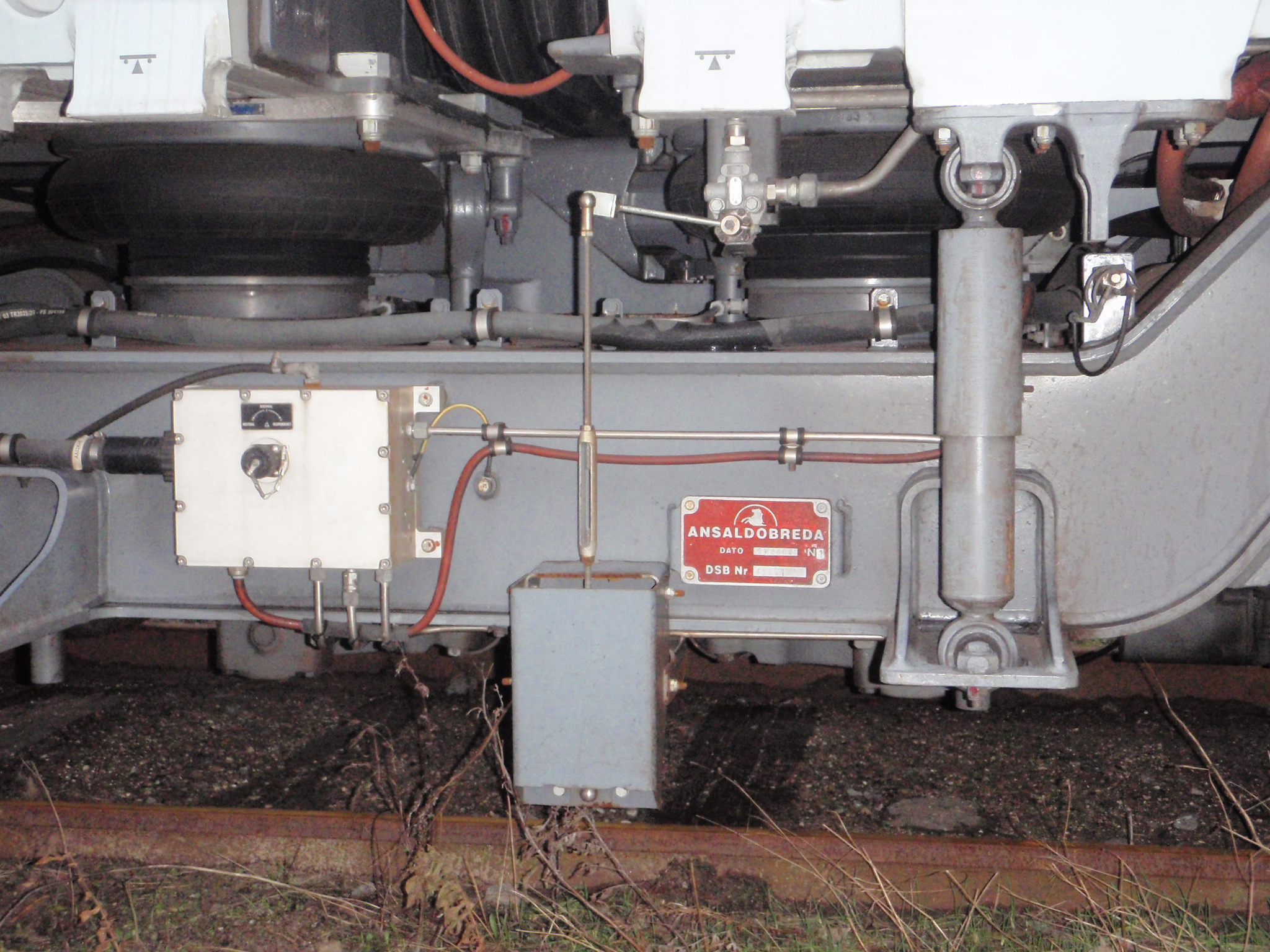 IC4 Jacobs bogie. Unit 31 at Sonnesgade in Aarhus.